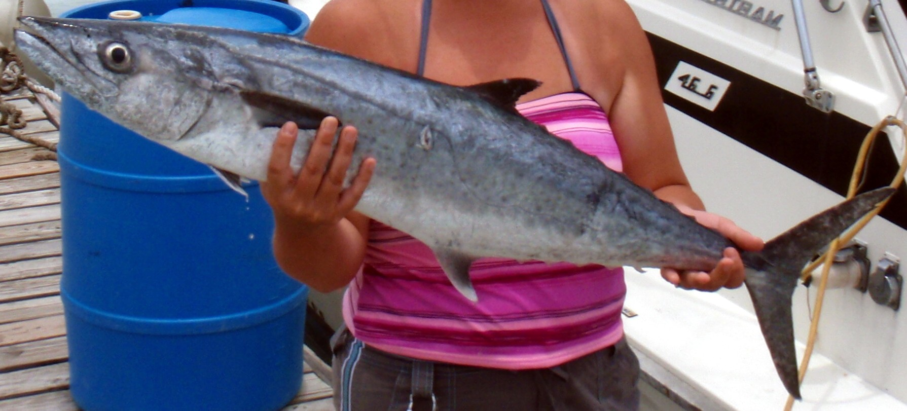 King Mackerel, estimated at about 30 pounds, caught at Anegada.